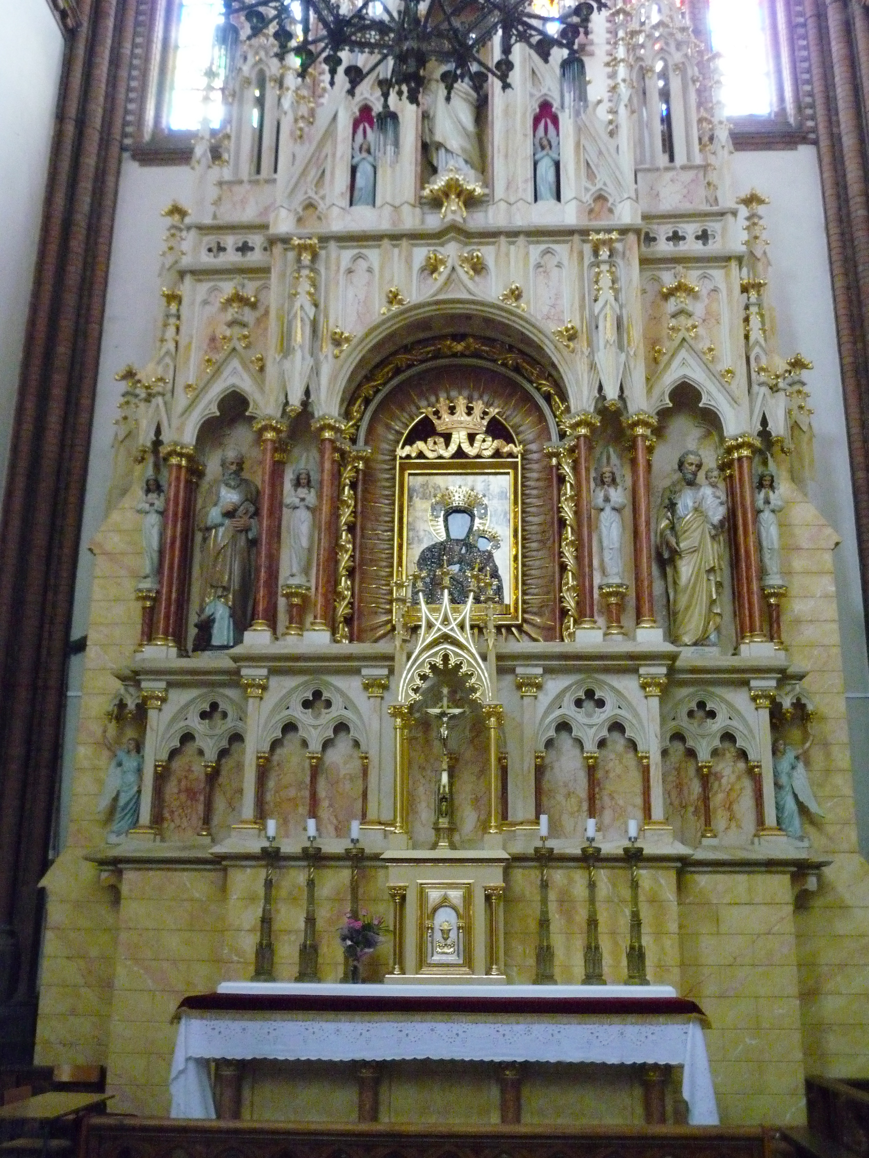 Białystok - Our Lady of Częstochowa altar in the catholic cathedral of the Assumption of the Blessed Virgin Mary